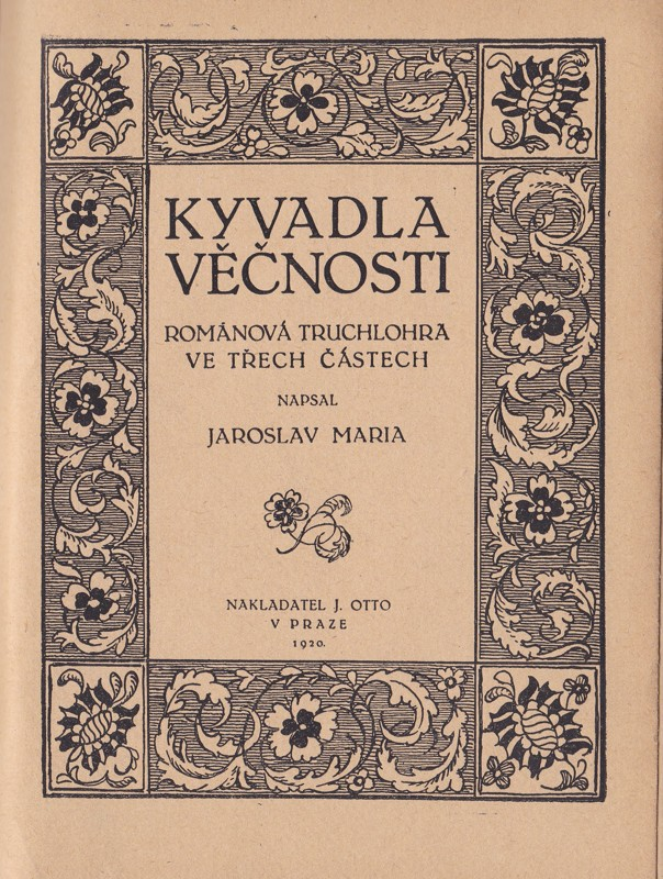 cover page Jaroslav Maria: Kyvadla věčnosti, published 1920